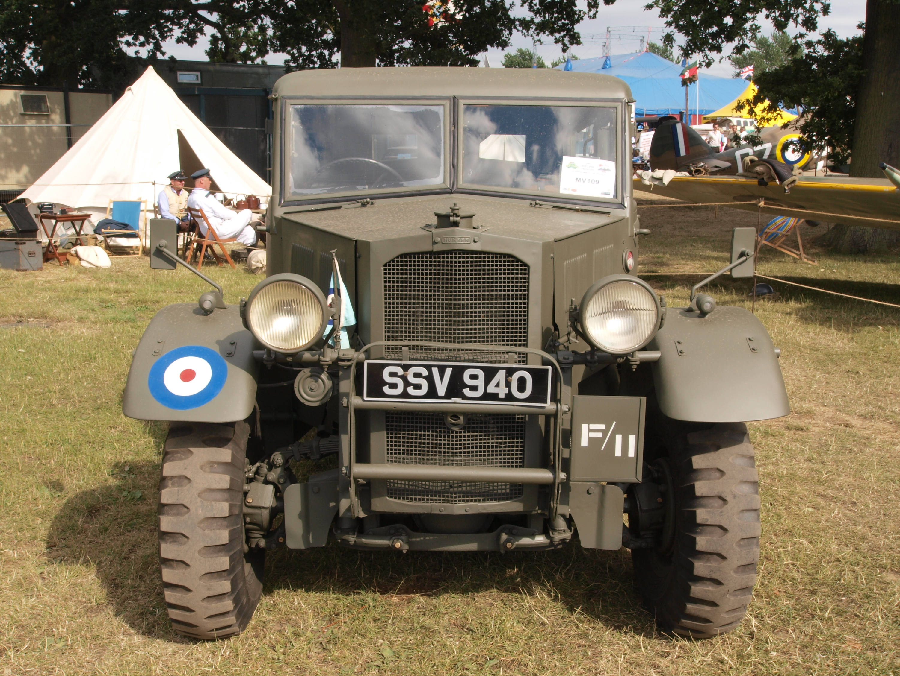 Humber Heavy Utility (1942) (owner Andrew Partridge)